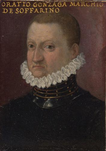 Portrait of Orazio Gonzaga (1545-1587)